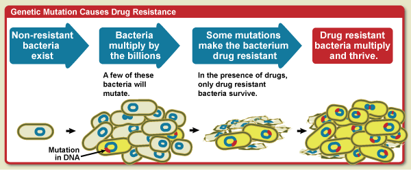 Diagram showing how genetic mutation causes drug resistance. Bacteria multiply by the millions. A few of these bacteria will mutate. Some mutations make the bacterium drug resistant. In the presense of drugs, only drug resistant bacteria survive. Drug resistant bacteria multiply and thrive.